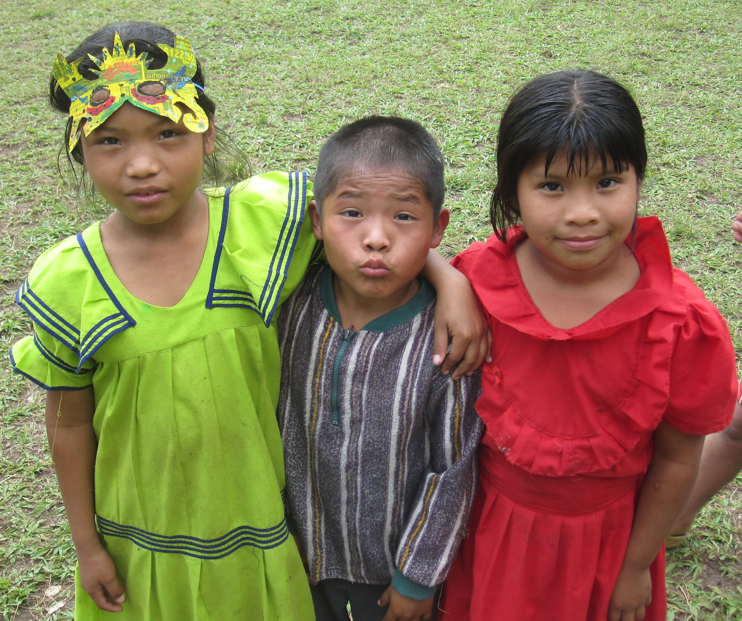 This photo contains three children of the indigenous tribe Guaymi from Panama.